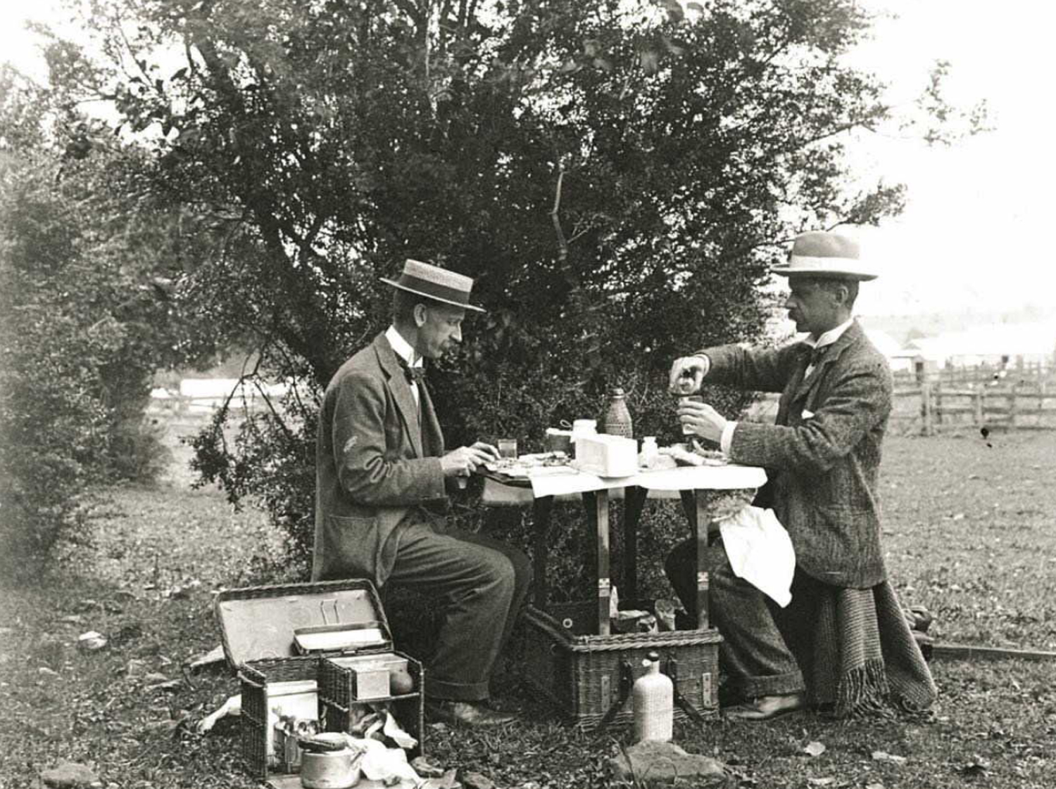 Arthur Wigram Allen and his brother Boyce Allen of Strickland House circa 1900